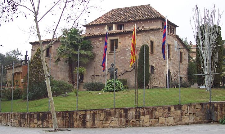 FC Barcelona's youth academy "La Masía", at the Les Corts district in Barcelona. The building was built in 1702 and was purchased by FC Barcelona in 1953.